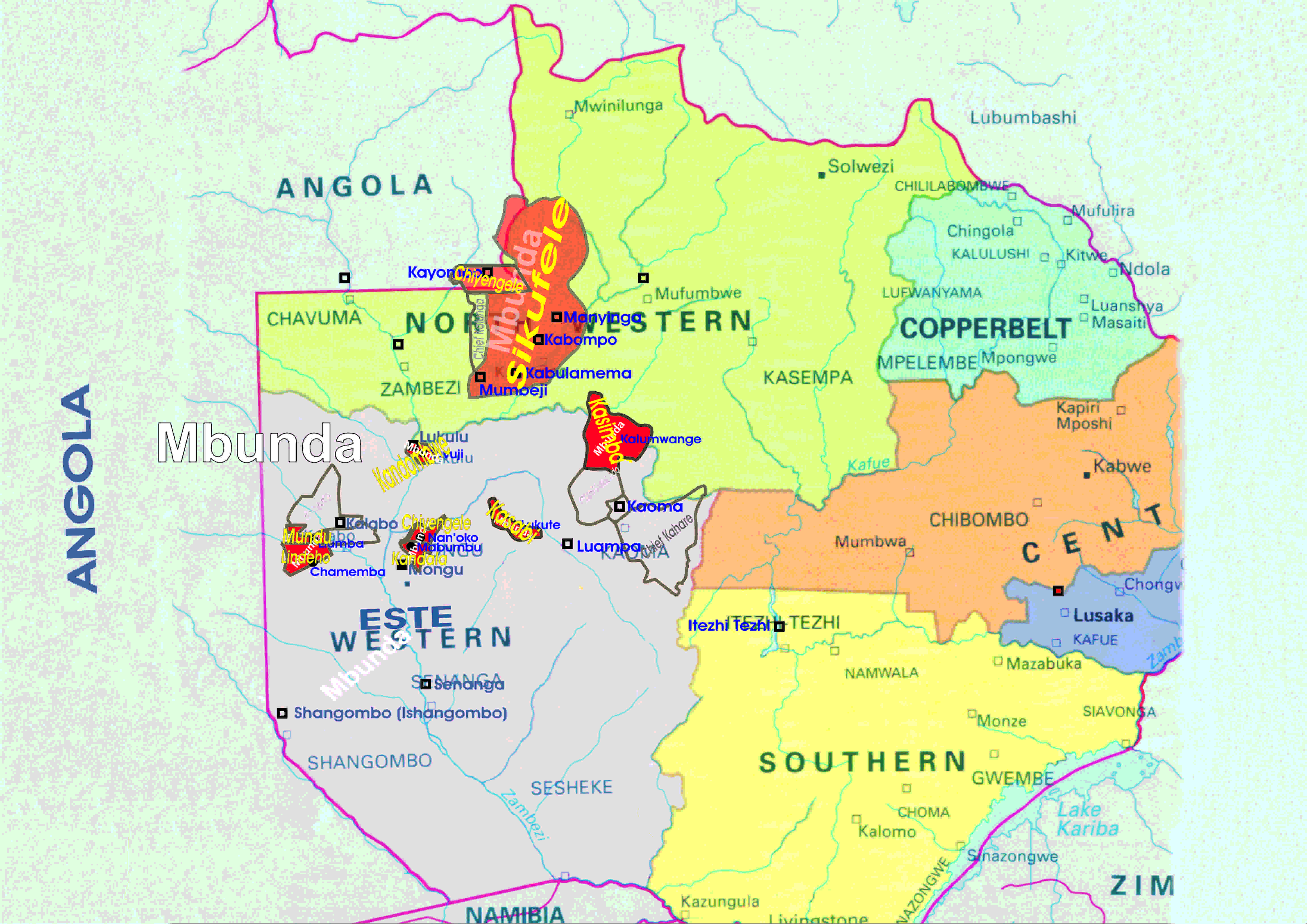 This is a map that shows where to find Mbunda Chief palaces in Zambia.